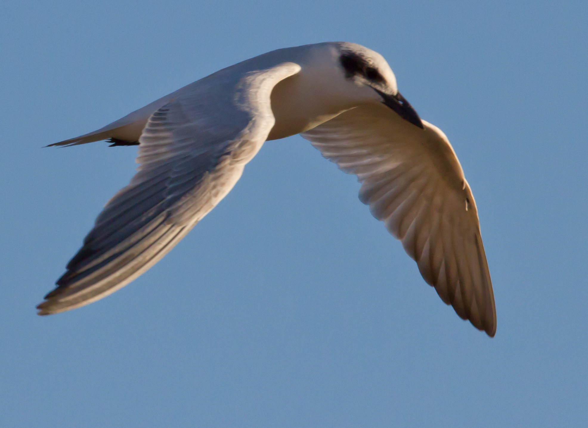 Australian Tern Gelochelidon macrotarsa in immature plumage; Pilbara, Karratha, Western Australia.